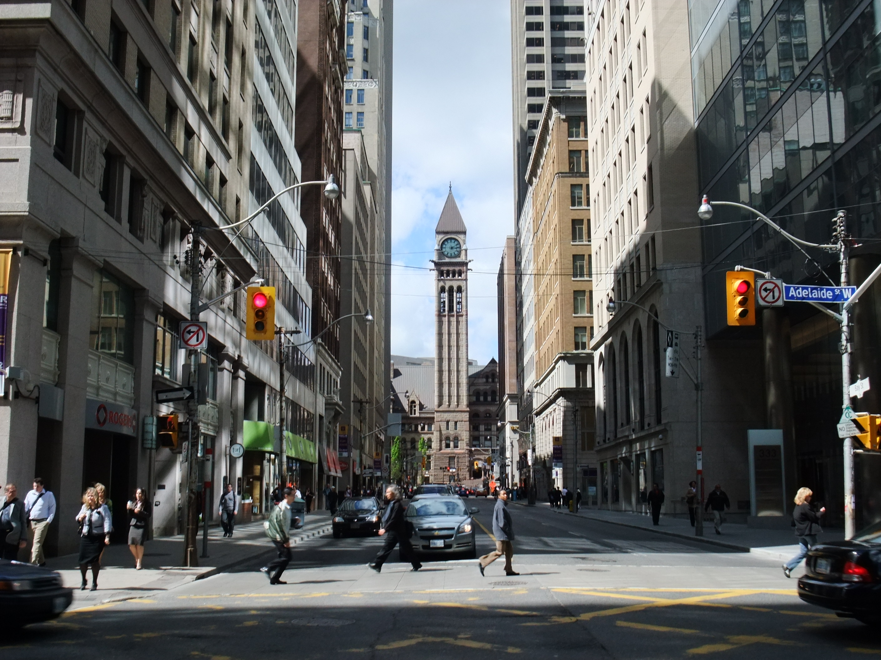 Bay Street looking north at Old City Hall, Toronto, Canada.